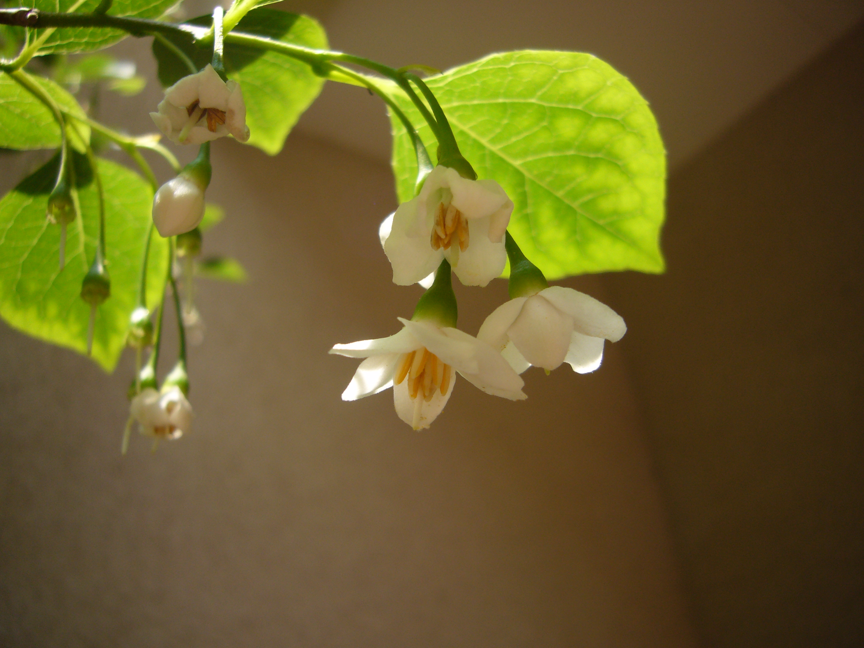 Flowers of Styrax japonica. "Japanese snowbell" in English; "エゴノキ (ego-no-ki)" in Japanese.